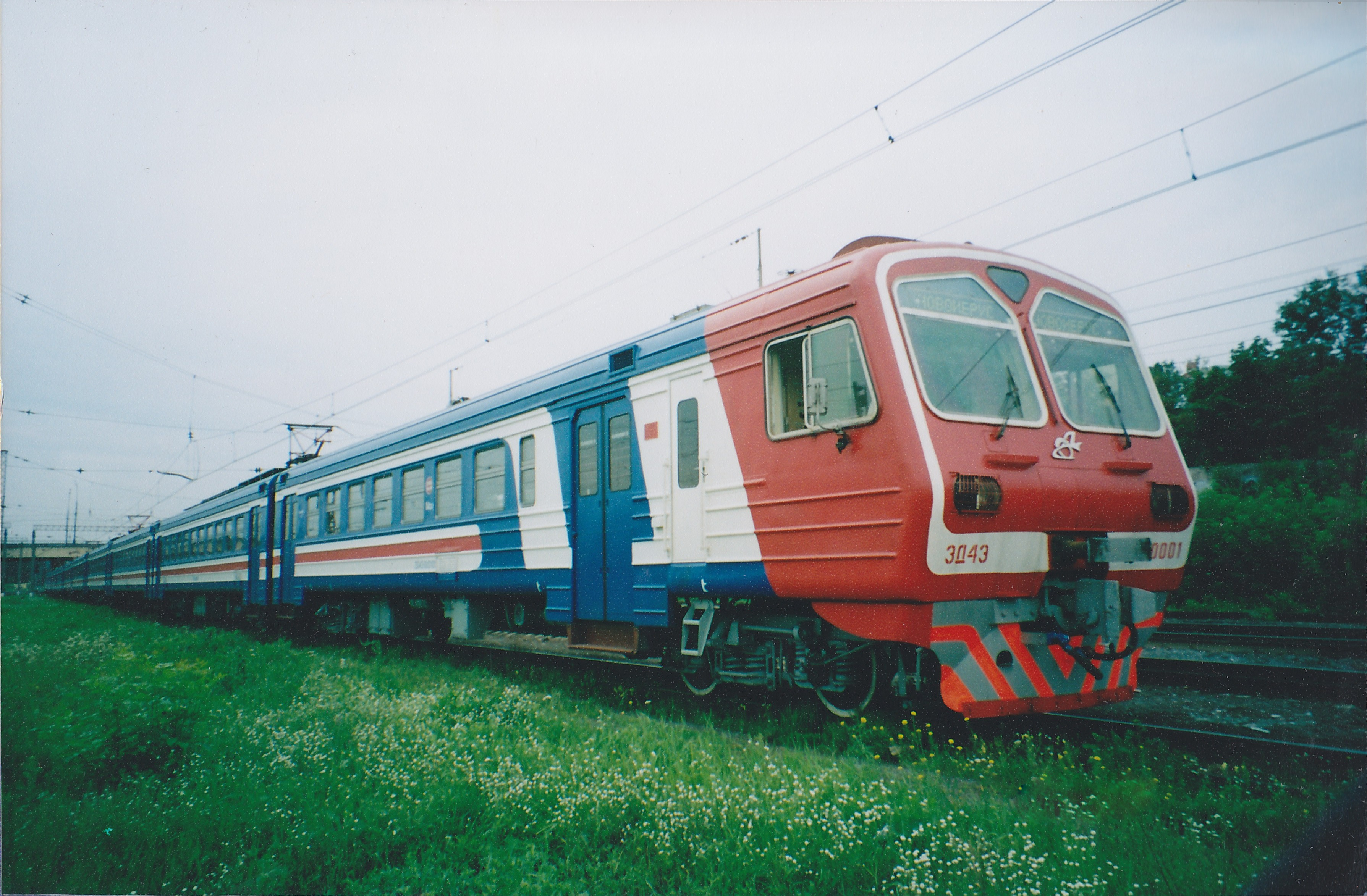 Electric multiple unit train ED4E-0001 near Tsaritsyno station.